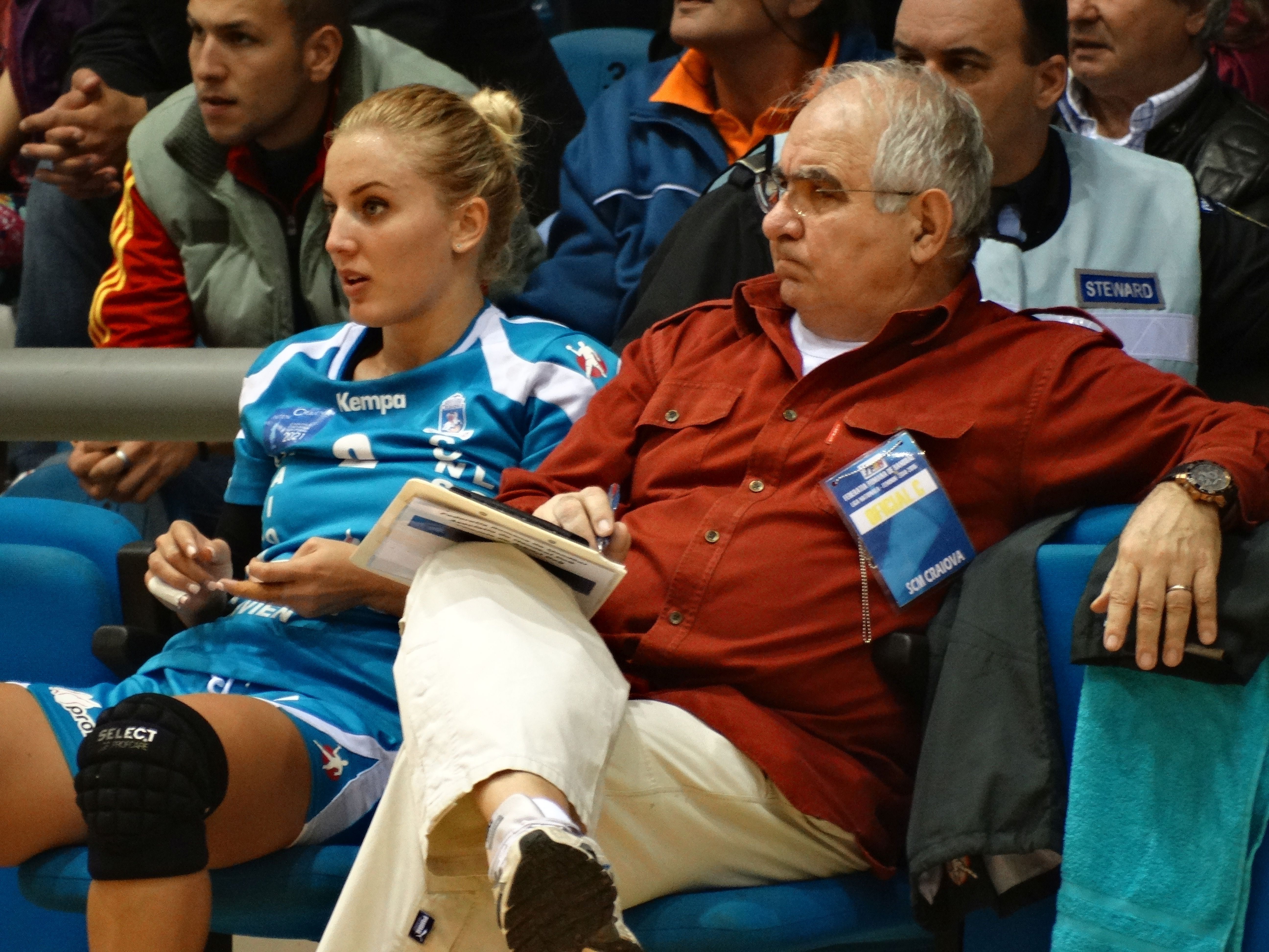 Romanian handball player Andreea Ianăși wearing the jersey of SCM Craiova. Sitting next to her, her handball coach Gheorghe Sbora.